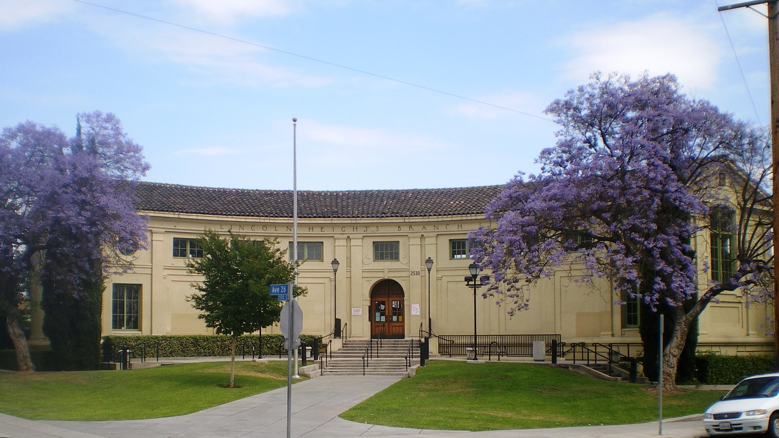 Lincoln Heights Branch Library, 2530 Workman St., Los Angeles, California. Second oldest branch library in Los Angeles; built in 1916 with a grant from Andrew Carnegie (Carnegie libraries). Two Jacaranda mimosifolia trees in purple bloom.